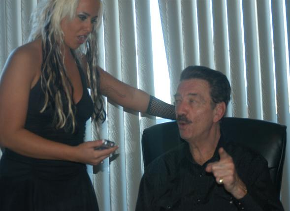 Jordan Taylor and Jim South at a World Modelling talent call